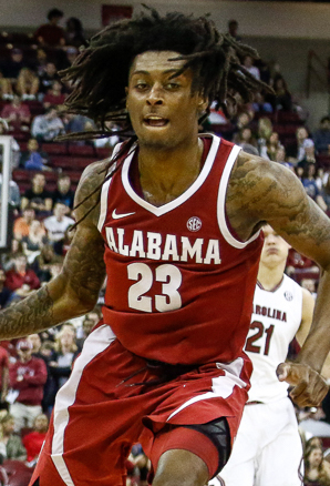 Photo by Chris Gillespie